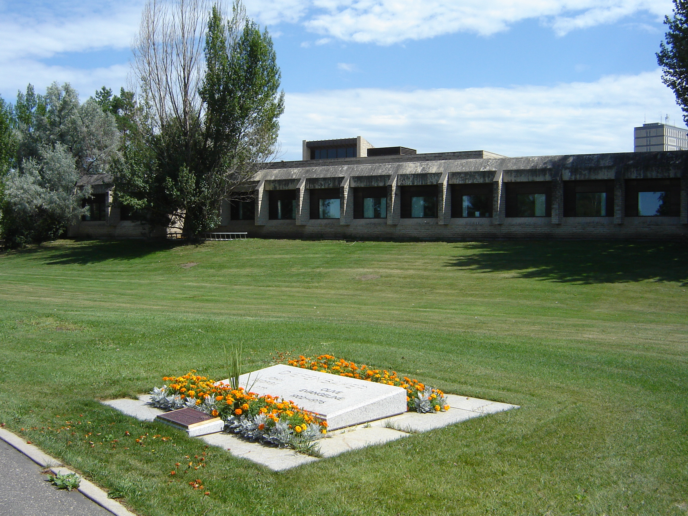 The Right Honourable John G. Diefenbaker Centre for the Study of Canada the centre and the burial site of John and Olive Diefenbaker